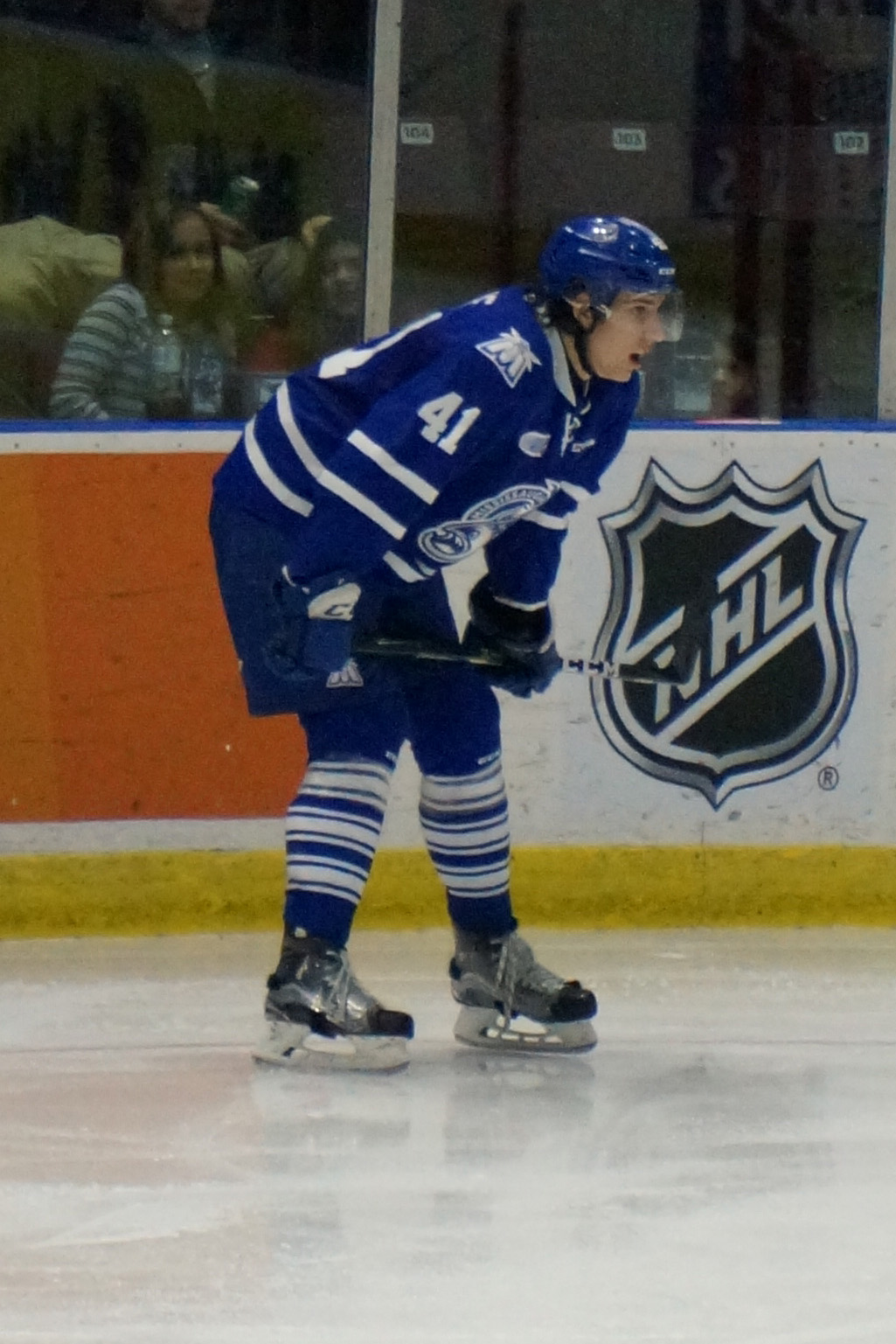 Nicolas Hague playing for the Mississauga Steelheads against the Erie Otters, February 17, 2017.